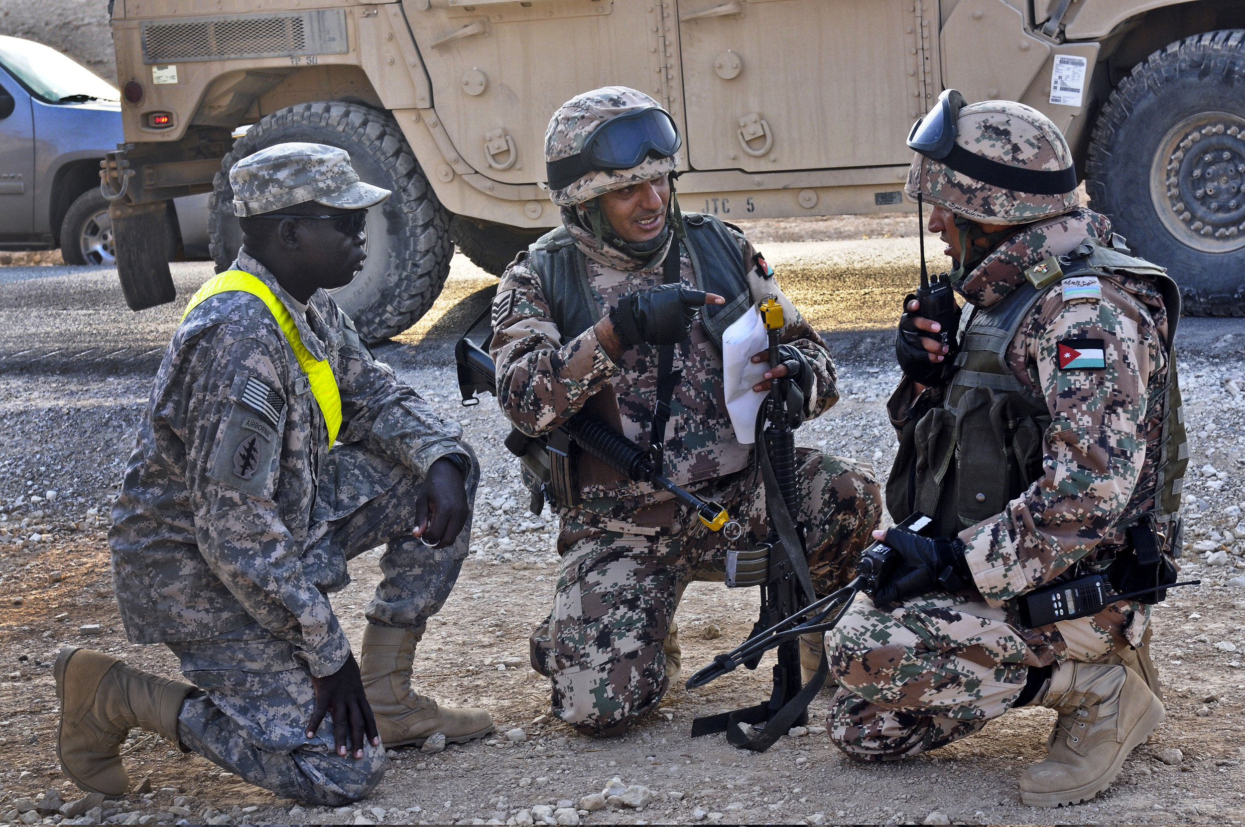 Jordanian soldiers discuss battle strategies while a U.S. Soldier, left, stands by in case an interpreter is needed during a situational training exercise Nov. 24, 2011, near Amman, Jordan, during Operation Flexible Saif, a joint training exercise to improve future security operations. U.S. Army photo by Cpl. Jordan Johnson